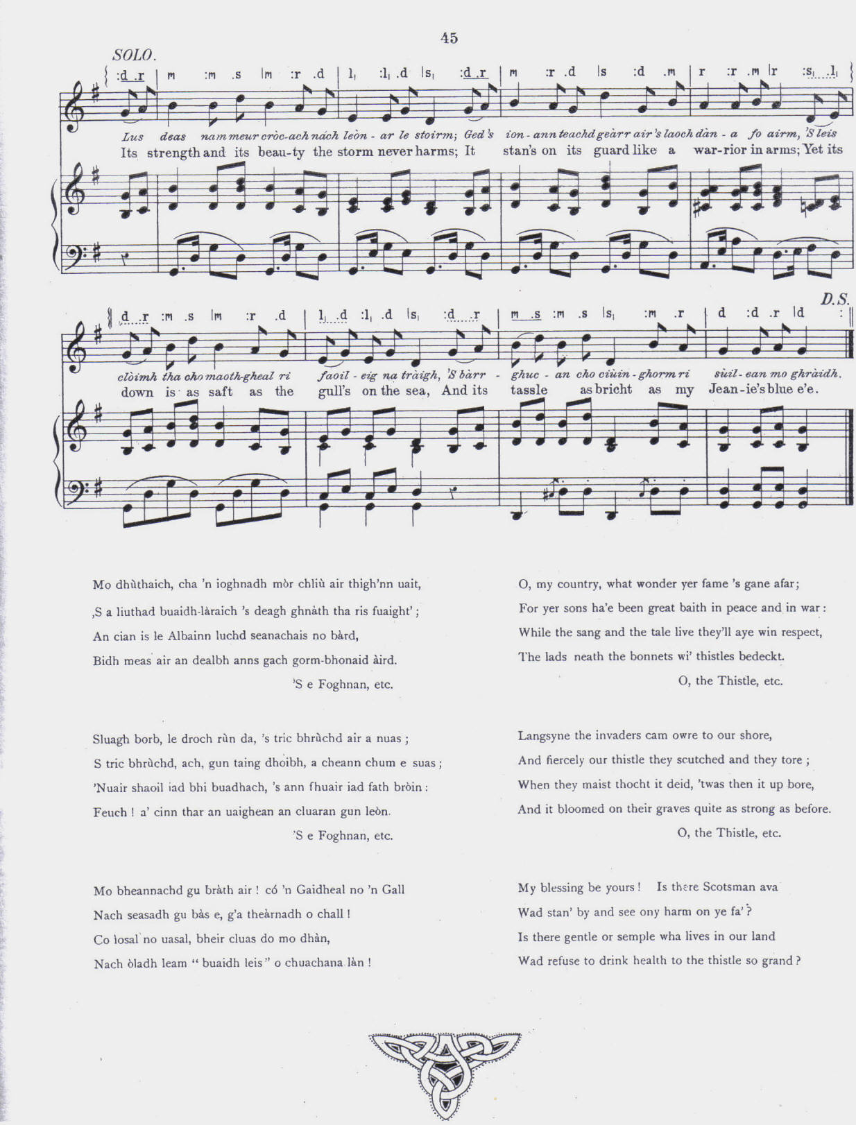 Photocopy of second page of work from a book in Mitchell Library, Glasgow. It was purchased by the library in December 1902. The library staff have given permission to copy and publicise this work.